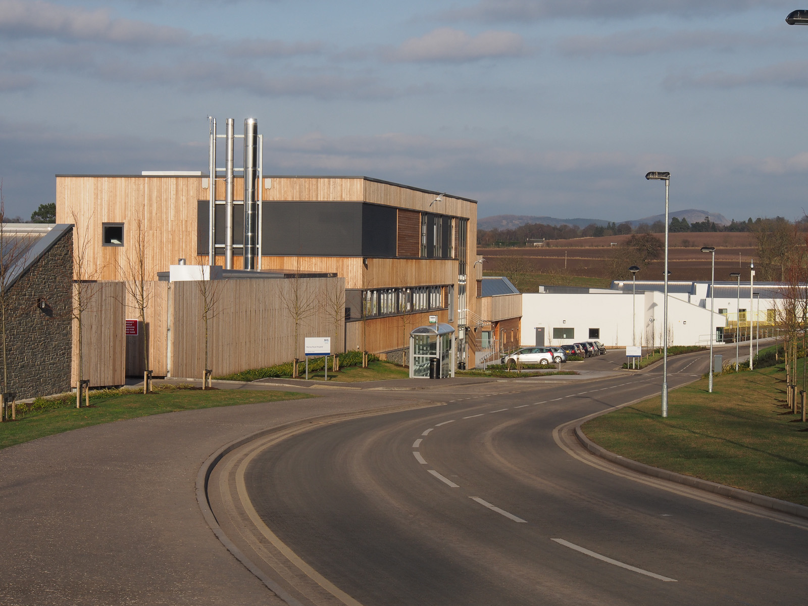 The Hub, Murray Royal Hospital